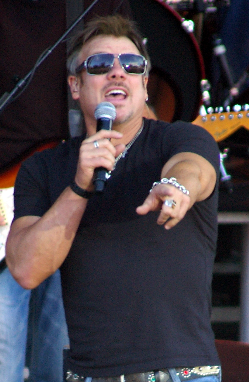 Country music artist Phil Vassar performing at the 2008 Durham Fair in Durham, Connecticut on September 28, 2008.